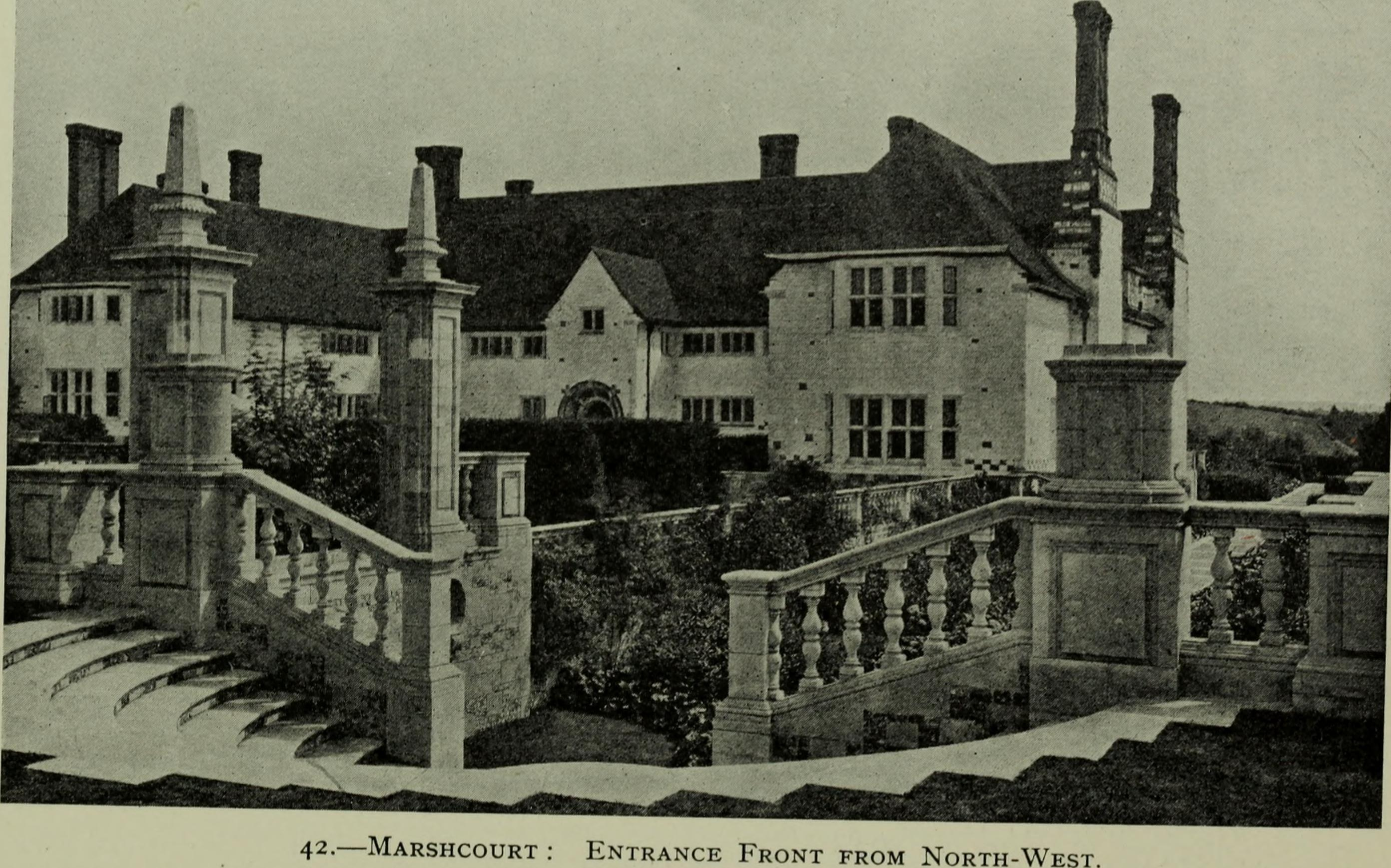 Illustration from the book Lutyens houses and gardens (1921).